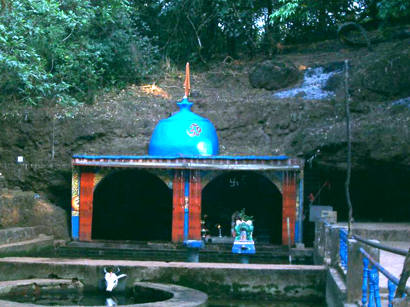 Amboli